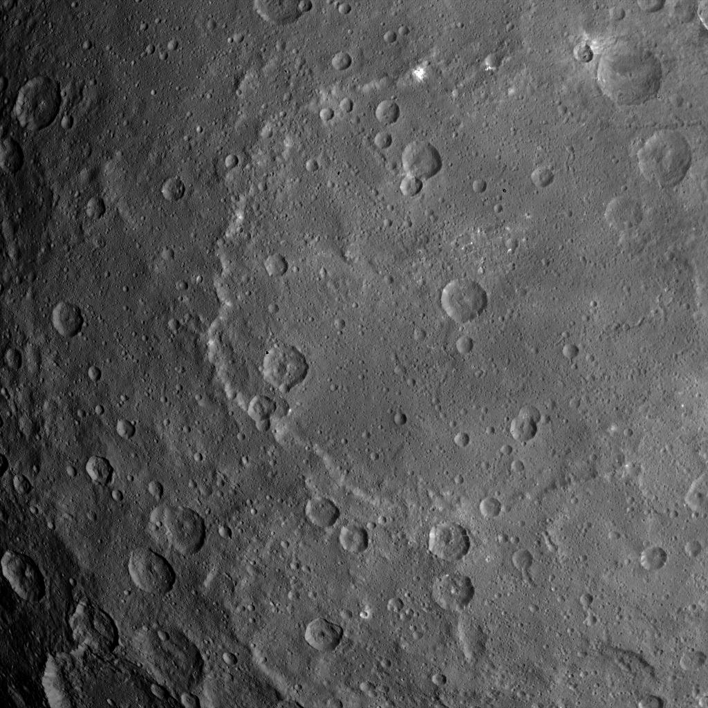 PIA19596: Dawn Survey Orbit Image 28 This image, taken by NASA's Dawn spacecraft, shows dwarf planet Ceres from an altitude of 2,700 miles (4,400 kilometers). The image, with a resolution of 1,400 feet (410 meters) per pixel, was taken on June 25, 2015. Dawn's mission is managed by JPL for NASA's Science Mission Directorate in Washington. Dawn is a project of the directorate's Discovery Program, managed by NASA's Marshall Space Flight Center in Huntsville, Alabama. UCLA is responsible for overall Dawn mission science. Orbital ATK, Inc., in Dulles, Virginia, designed and built the spacecraft. The German Aerospace Center, the Max Planck Institute for Solar System Research, the Italian Space Agency and the Italian National Astrophysical Institute are international partners on the mission team. For a complete list of acknowledgments, For more information about the Dawn mission, visit